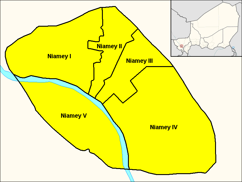 Map of the 5 municipal boroughs (communes) of Niamey: Niamey I; Niamey II; Niamey III; Niamey IV; Niamey V. Niger River is shown in the map.